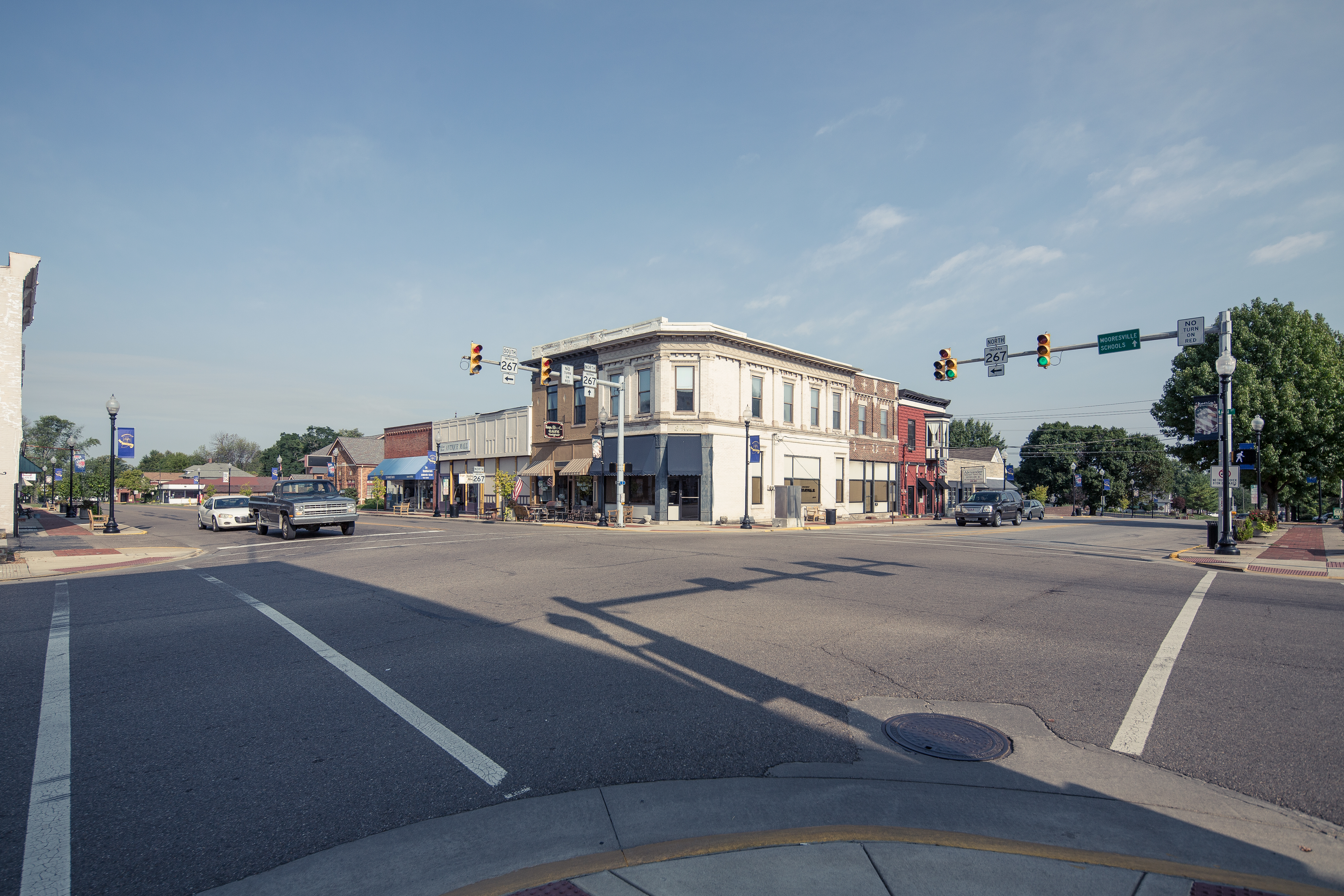 Photo from Small Town Indiana photo survey.